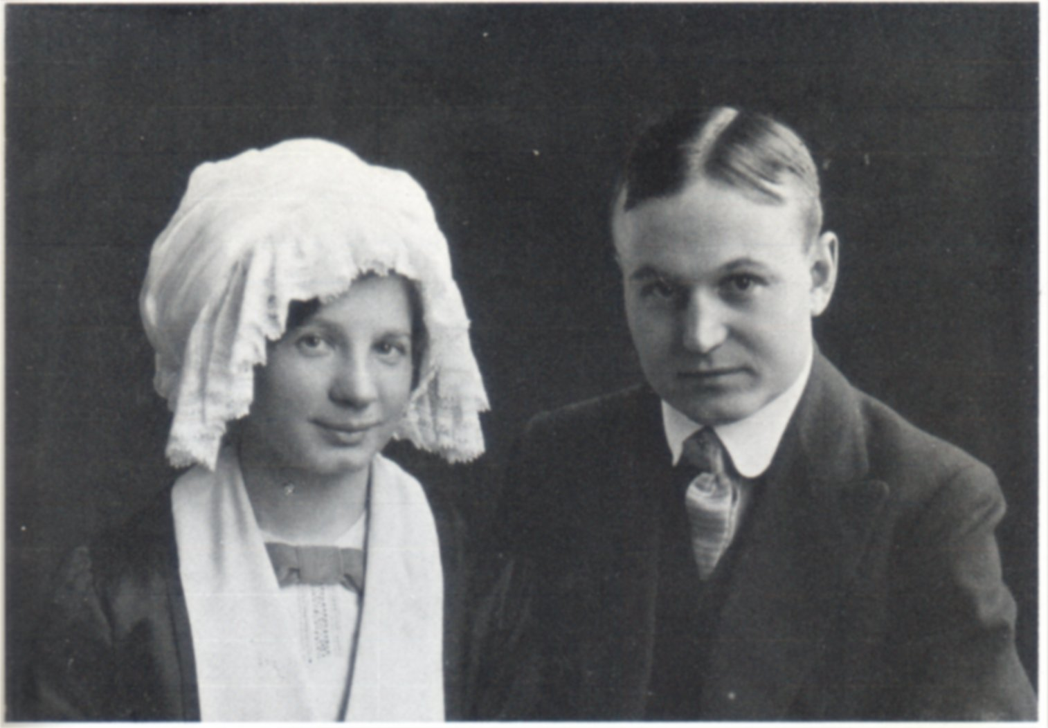 Just married. Elin Wägner and John Landquist married in November 1910